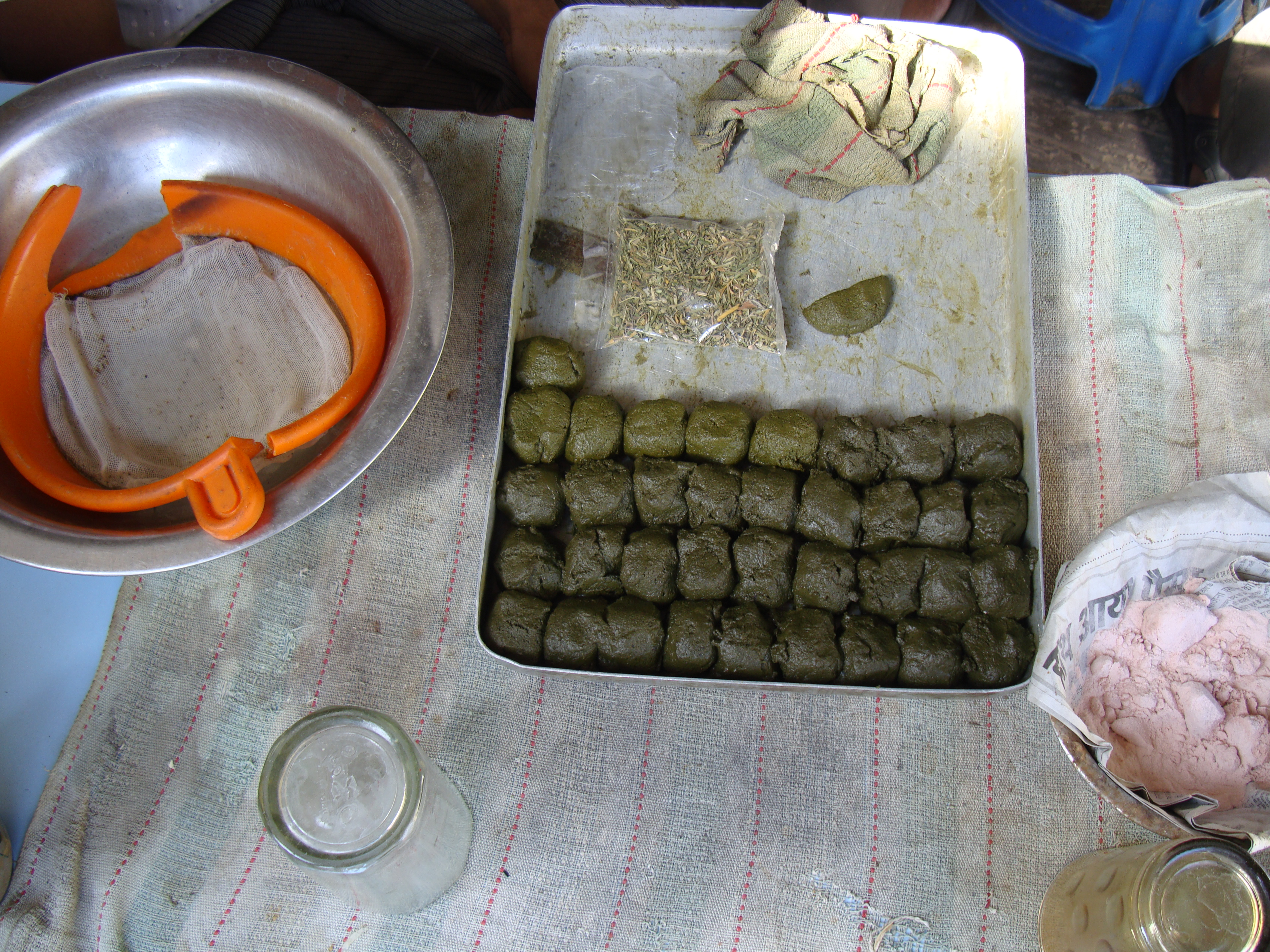 marijuana is semi-legal and is referred to as bhang. they take the beautifully processed leaves (which are also for sale, see plastic bag, won't reveal the cost as it will make you weep) and cook them up into these gooey balls that are used to make various foods such as bhang lassis.